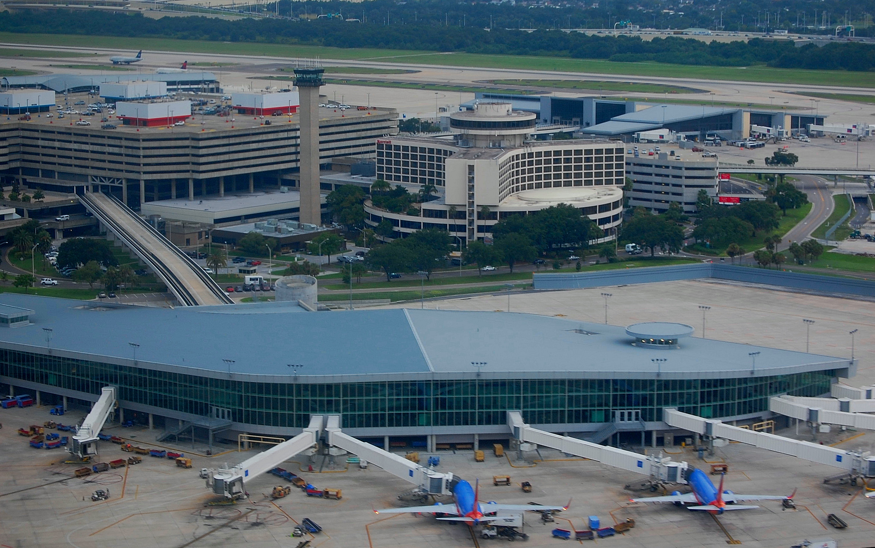 Aerial view of Tampa Internatinal Airport on take-off